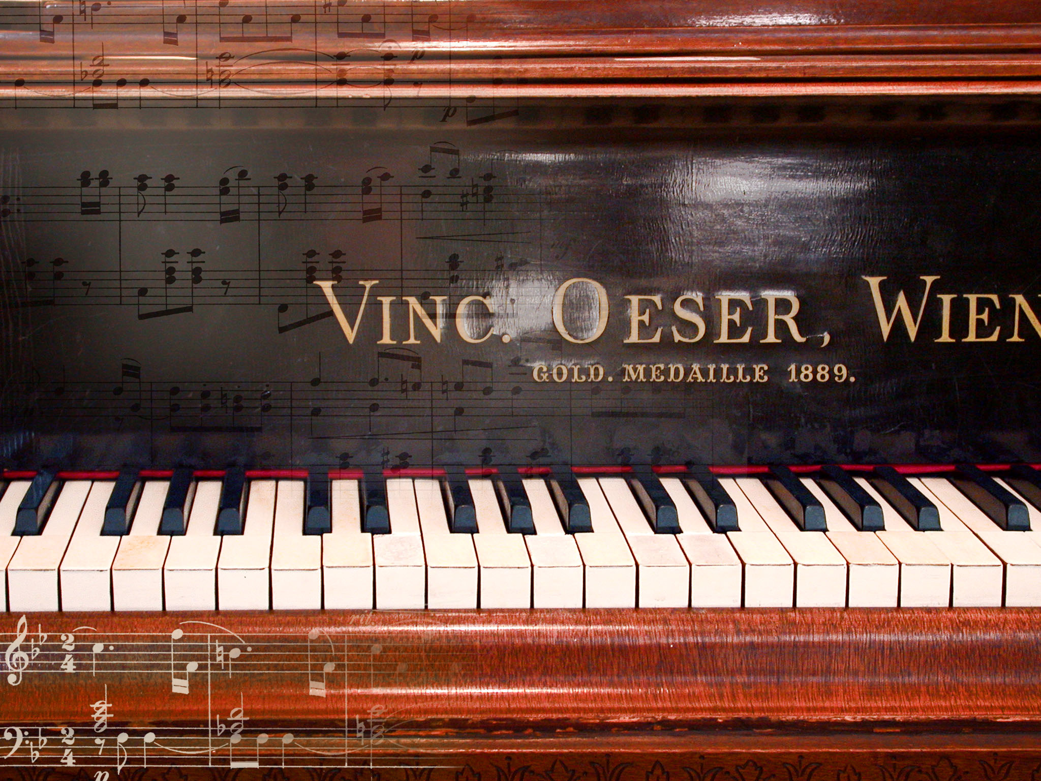 Piano - music fantasy by User Takkk (Istvan Takacs) Hungary